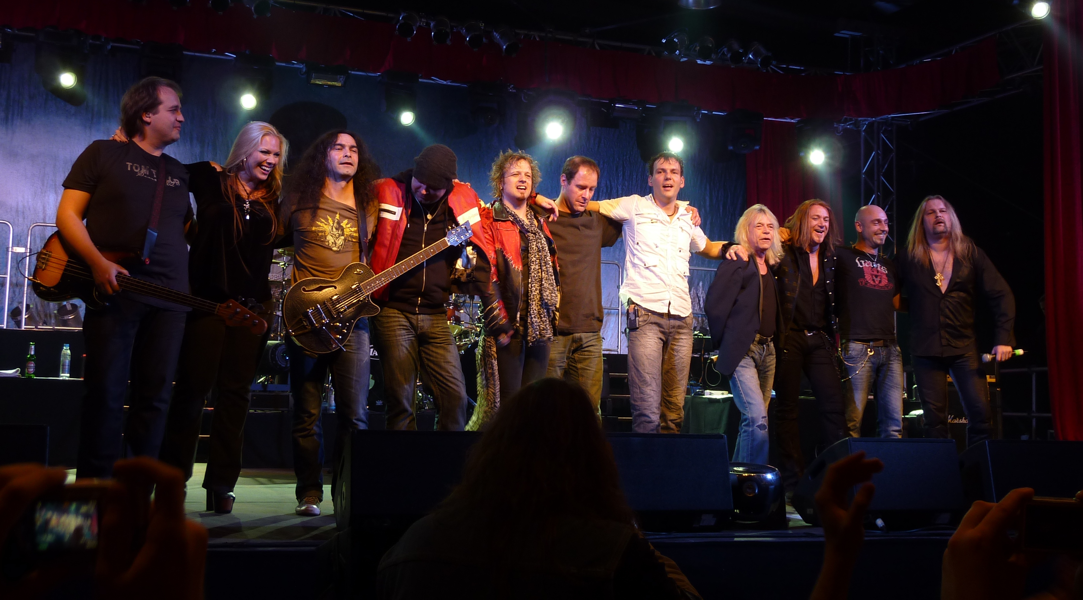 Avantasia in Kaufberen, Germany, 2010; from left to right: Robert Hunecke-Rizzo, Amanda Somerville, Sascha Paeth, Michael Kiske, Tobias Sammet, Michael Rodenberg, Felix Bohnke, Bob Catley, Kai Hansen, Oliver Hartmann a Jørn Lande